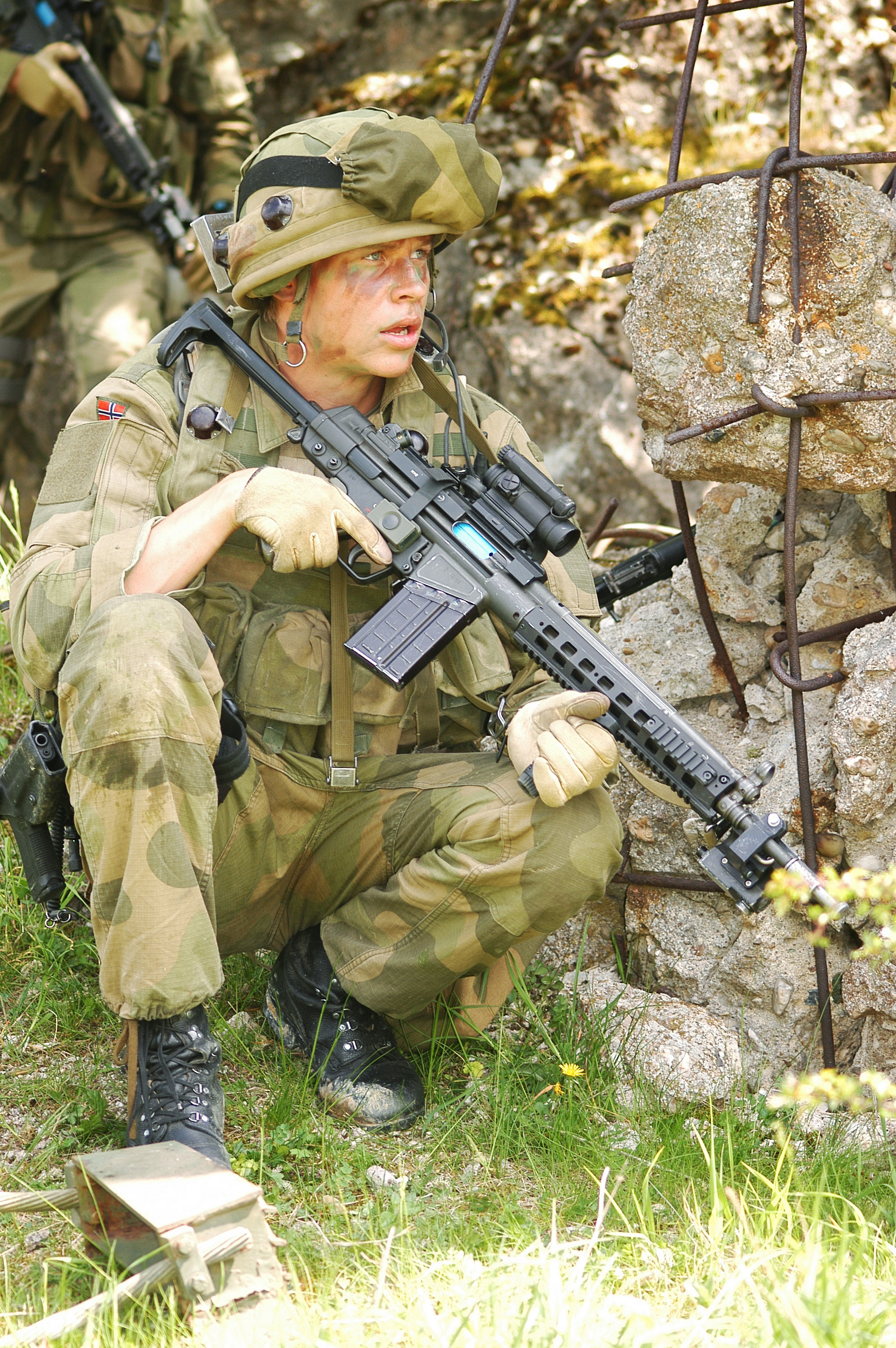 A Norwegian Army soldier takes cover behind a wall from incoming opposing force insurgent fire in the Joint Multinational Readiness Center training area in Hohenfels, Germany, May 13, 2008. The NATO Operational Mentorship and Liaison Team is preparing the soldiers for unit readiness prior to a deployment.